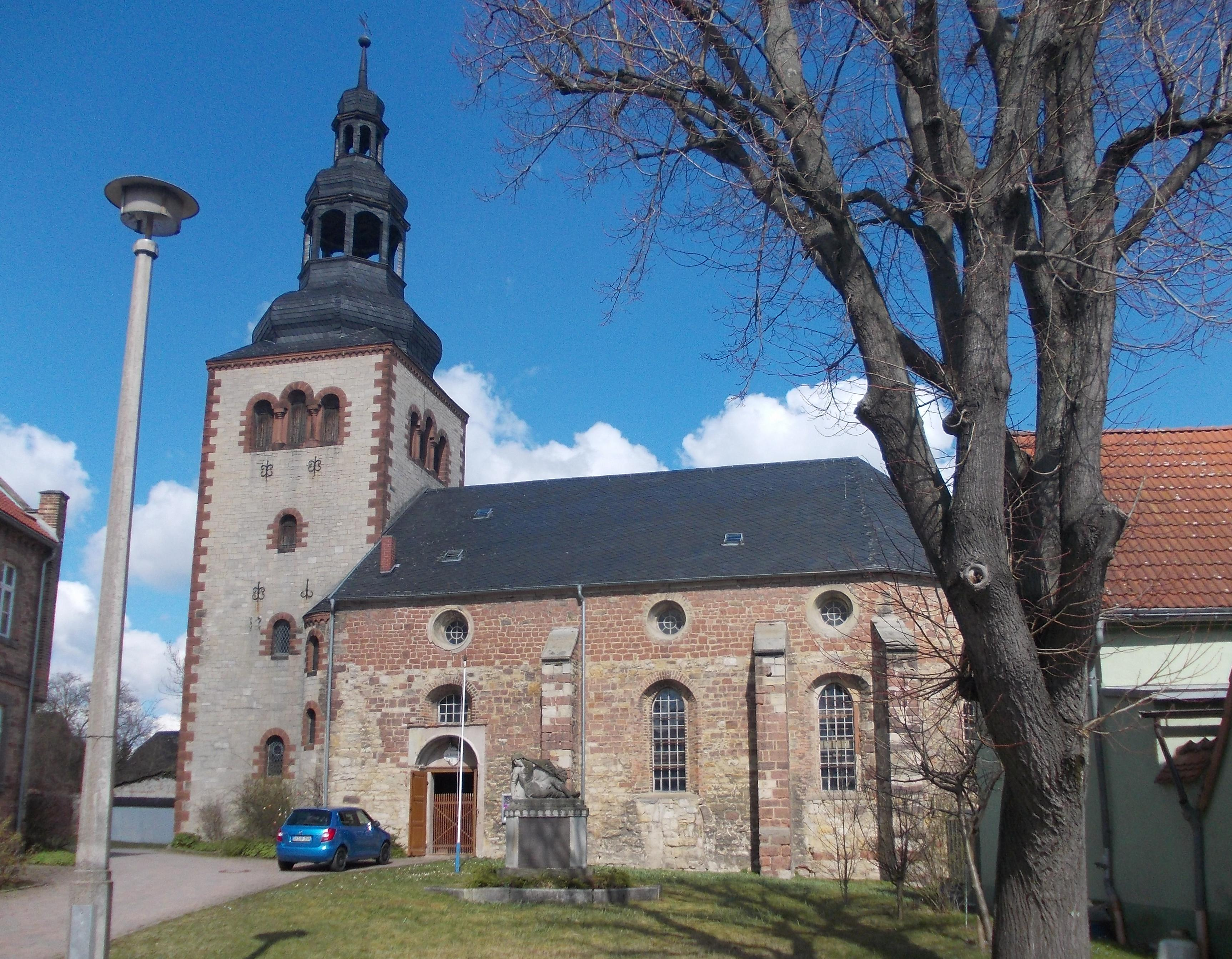 Saints John and Paul Church in Oberfarnstädt (Farnstädt, district: Saalekreis, Saxony-Anhalt) with World War I memorial